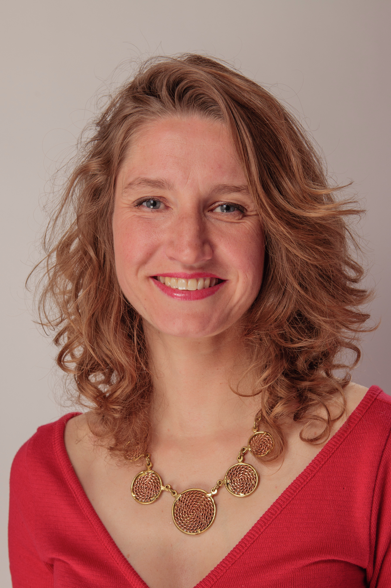 Socialistische Partij Candidate for the House of Representatives during the 2012 general elections.